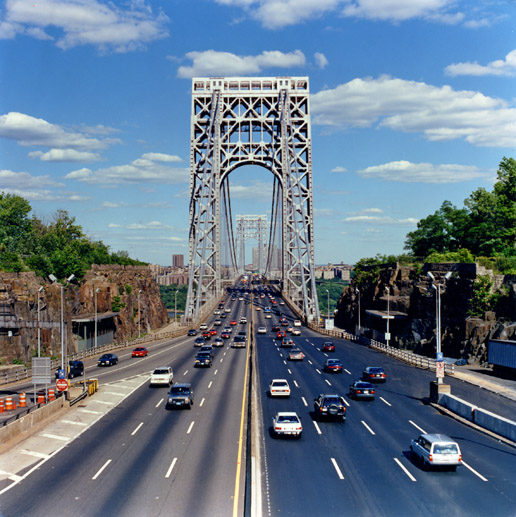 George Washington Bridge, view of the roadway and tower